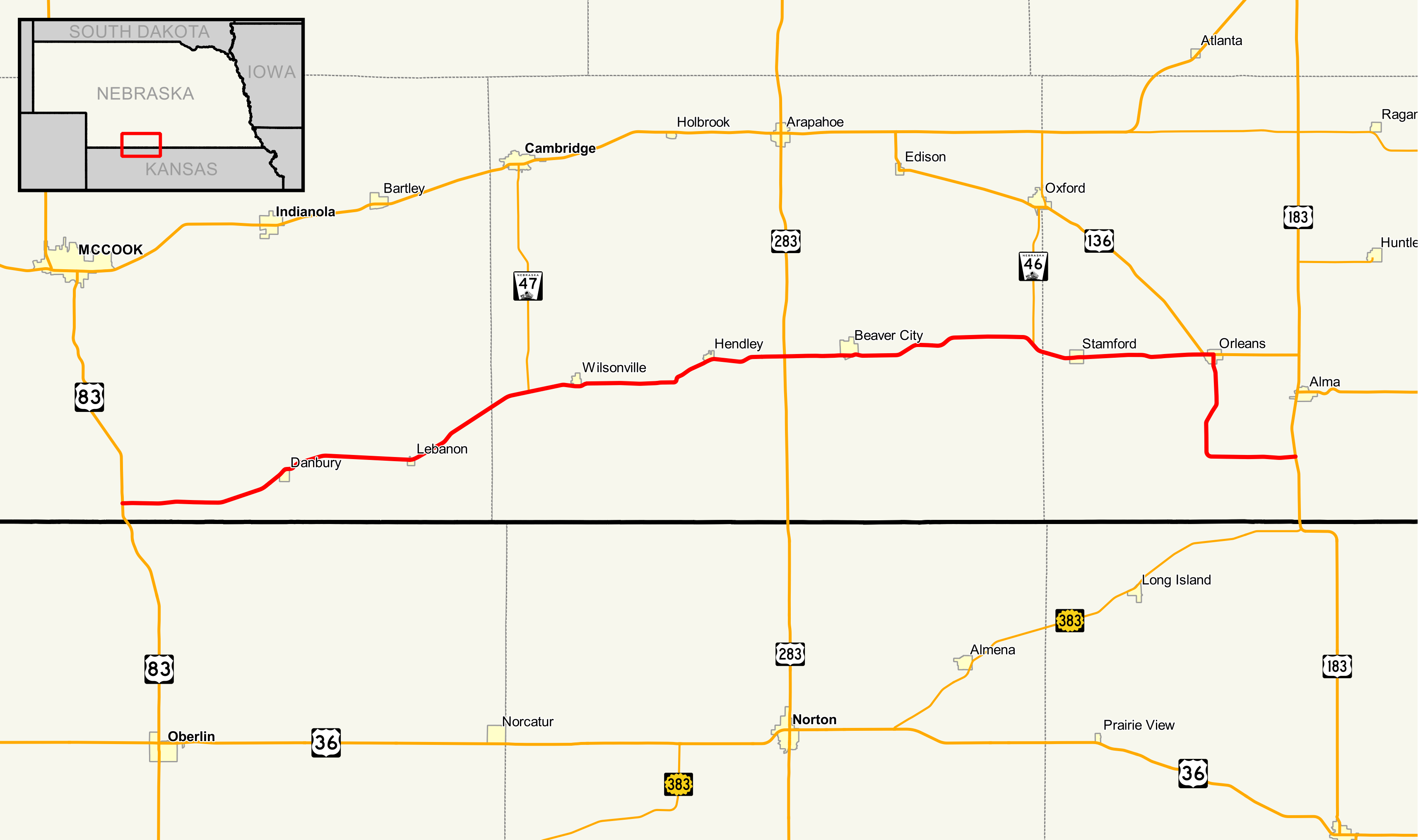 Map of Nebraska Highway 89 Data Sources: Nebraska Highways - - Dec 2016 Nebraska County Boundaries - - Dec 2016 Nebraska City Boundaries - - Dec 2016 This PNG graphic was created with QGIS